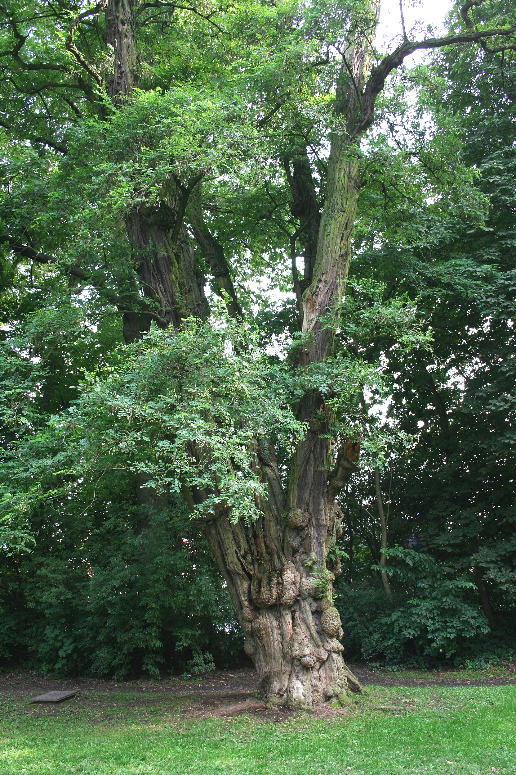 Black locust (Robinia pseudoacacia).